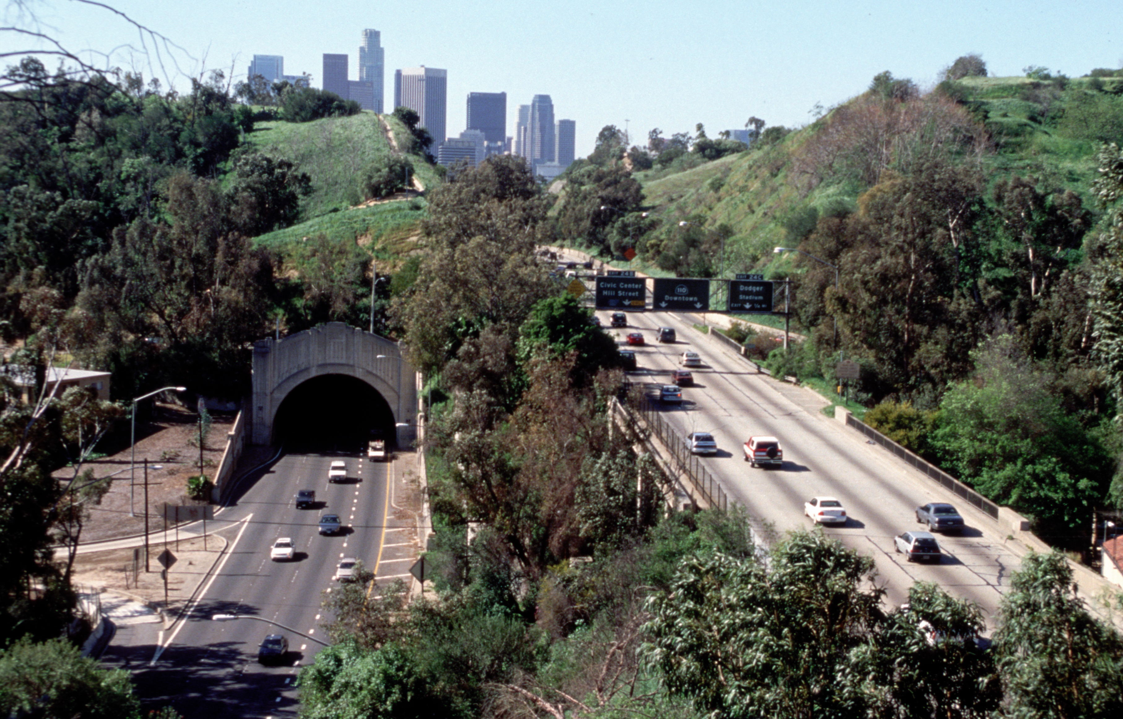 The Arroyo Seco Parkway through Elysian Park.